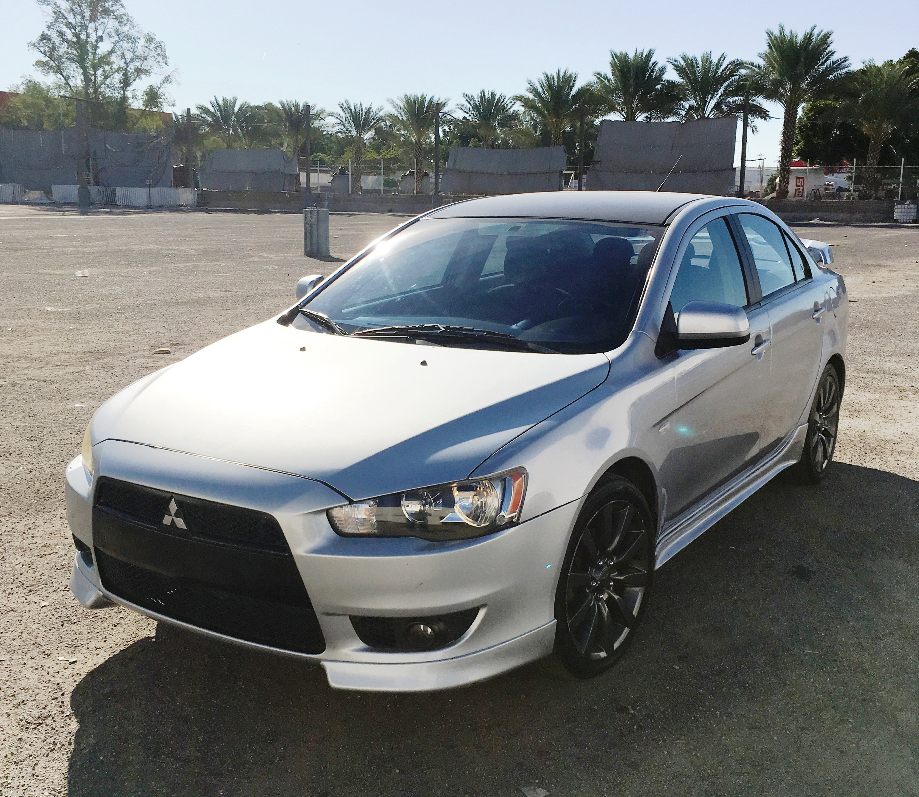 Mistubishi Lancer GTS 2009 (Mexico)